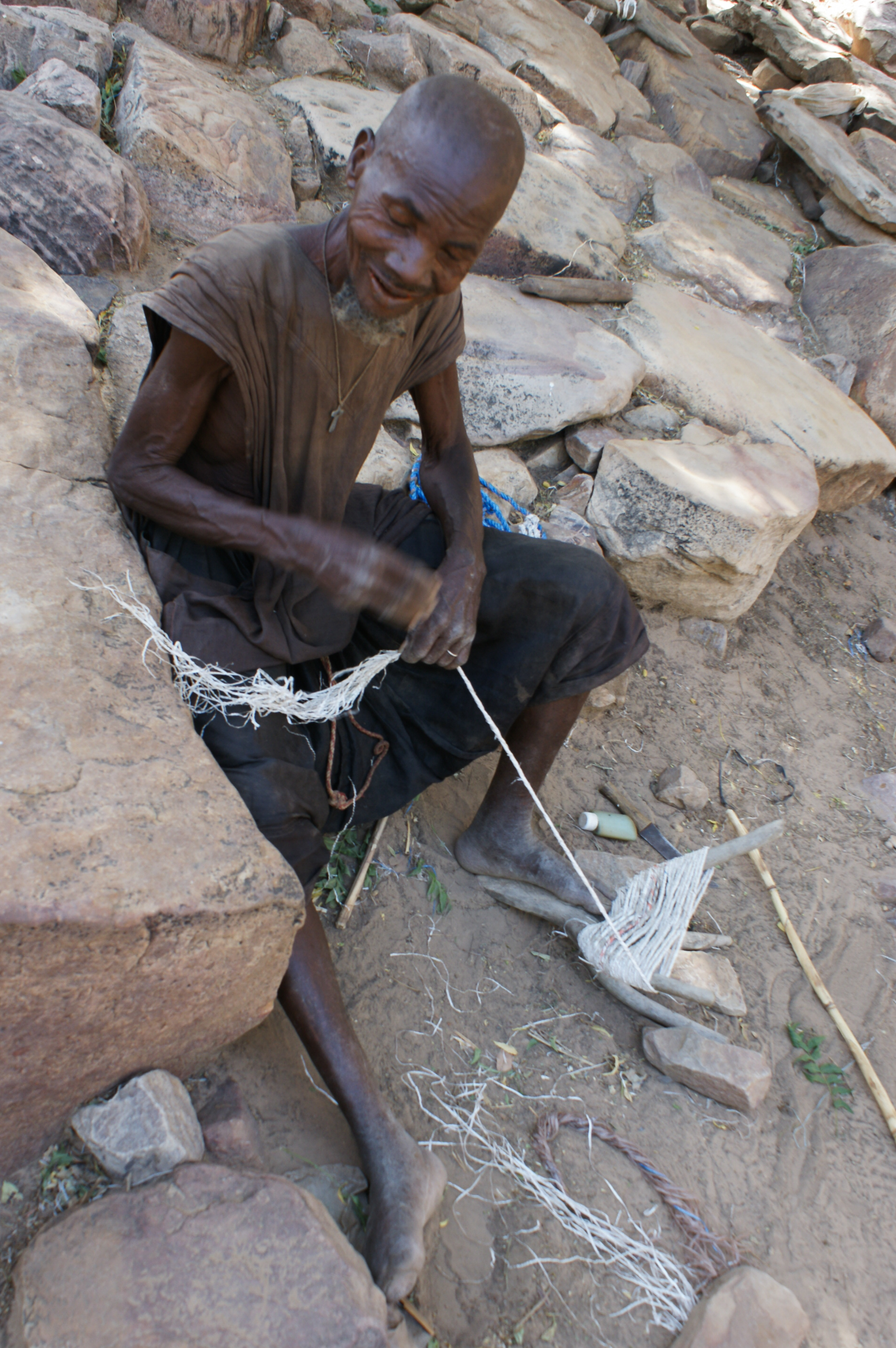 Old man braiding a rope in Dogon Country, Mali This is an image of "African people at work" from Mali